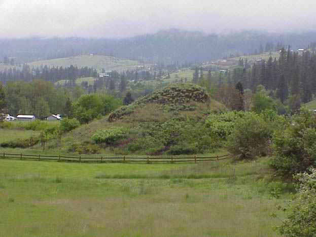 Photo of what traditional Nimíipuu believe is the heart of the monster which led to the creation of all of the tribes in this area.